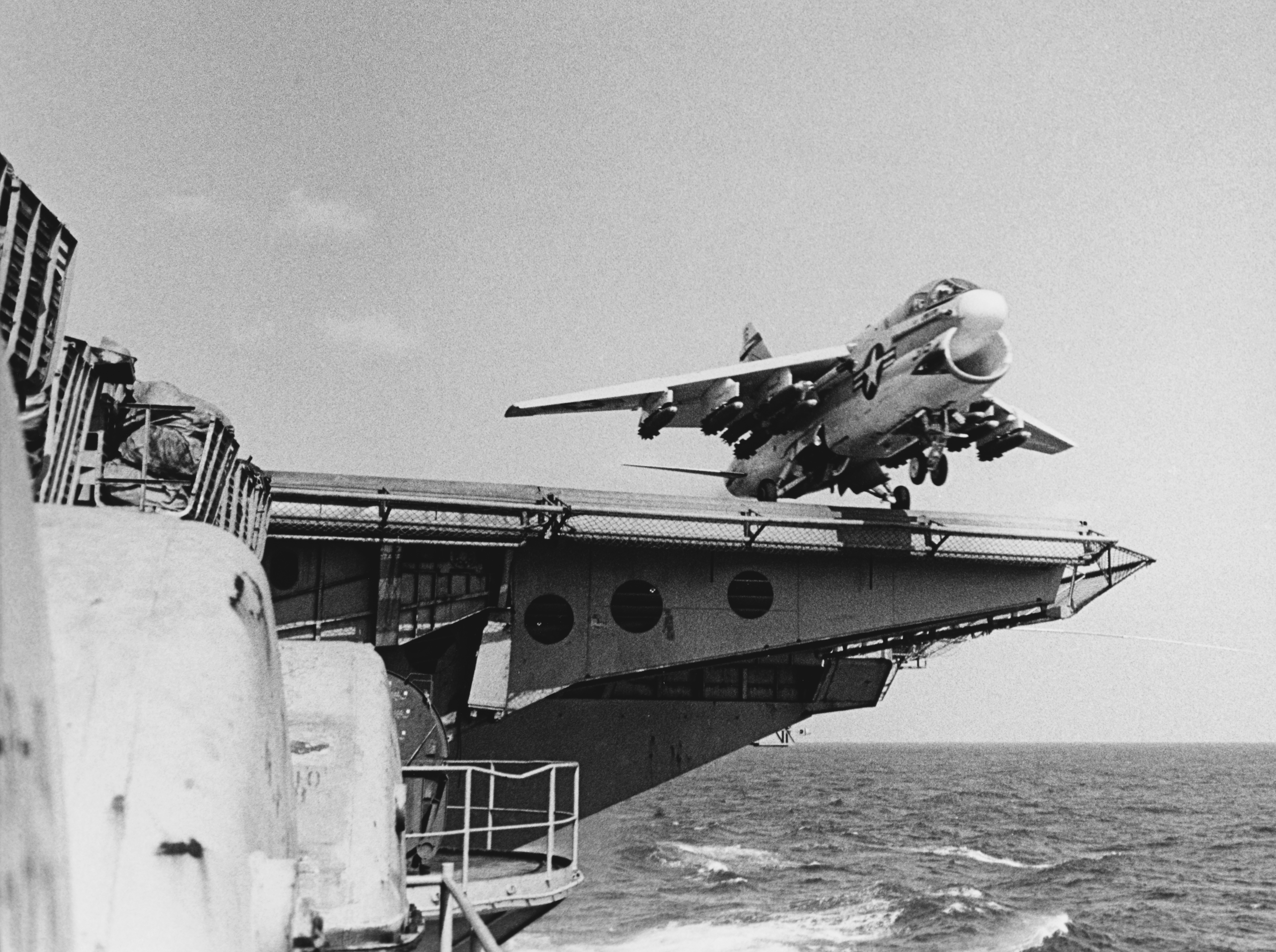 A bomb-laden U.S. Navy Ling-Temco-Vought A-7A Corsair II (BuNo 153241) from Attack Squadron 147 (VA-147) "Argonauts" is launched from the aircraft carrier USS Ranger (CVA-61) from one of her waist catapults, during operations in the Gulf of Tonkin, in January 1968. VA-147 was assigned to Attack Carrier Air Wing 2 (CVW-2) aboard the Ranger for a deployment to Vietnam from 4 November 1967 to 25 May 1968. This was the first combat deployment of the Corsair II.